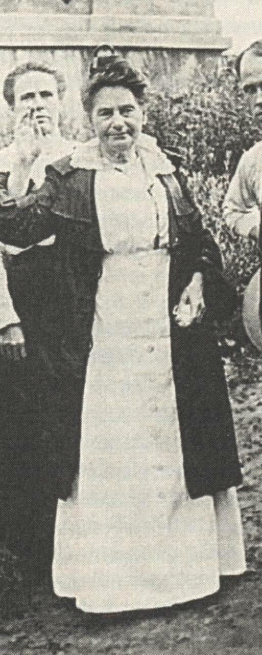 Maria Woodworth-Etter (1844-1924). American evangelist